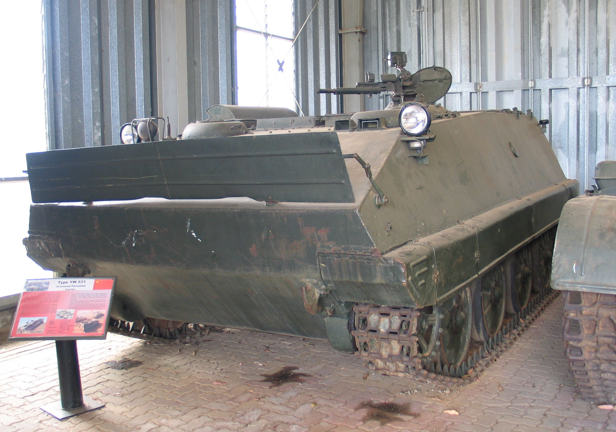 Chinese YW531 APC in Royal Australian Armoured Corps Tank Museum, Puckapunyal, Victoria, Australia.